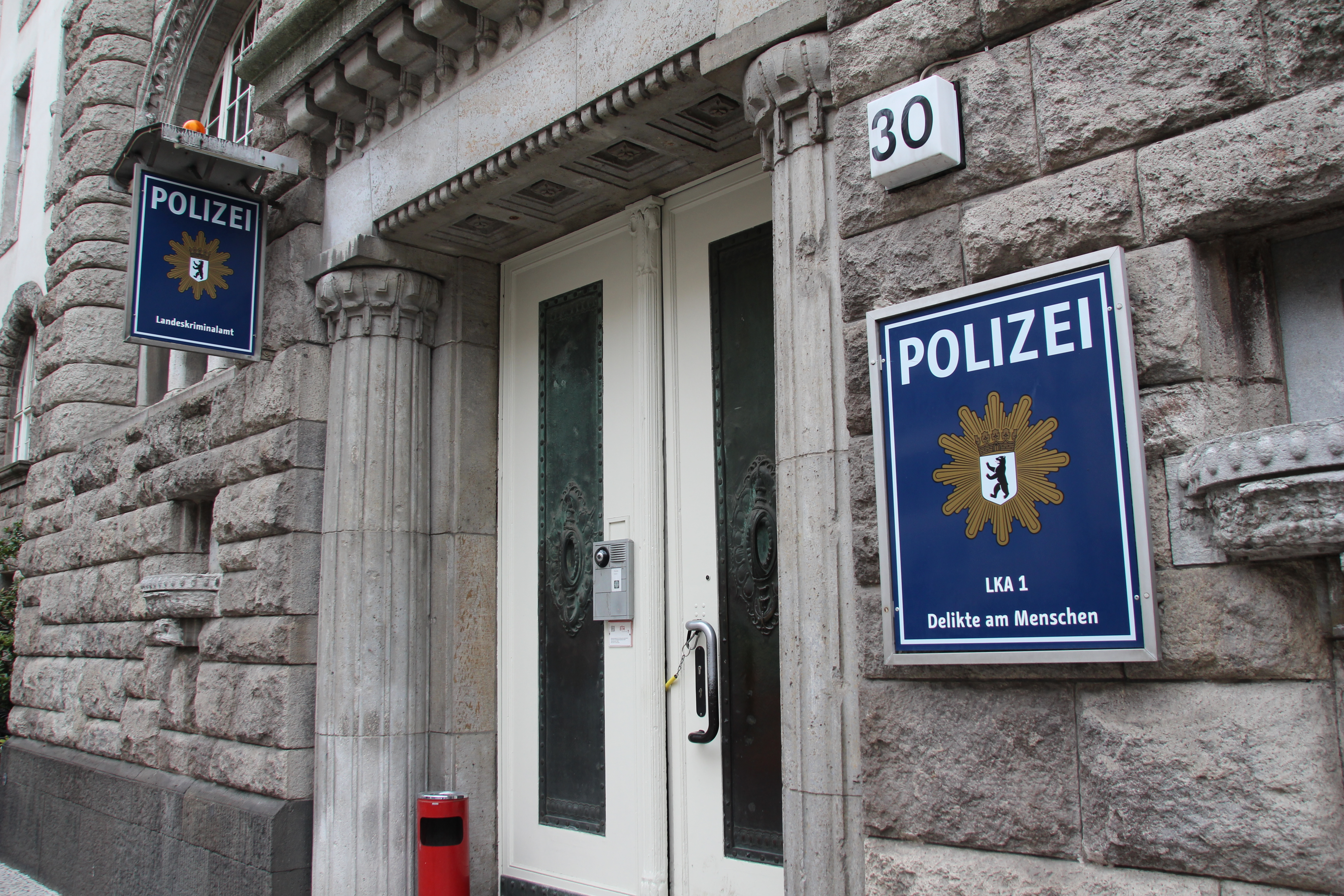 Mordkommission Berlin